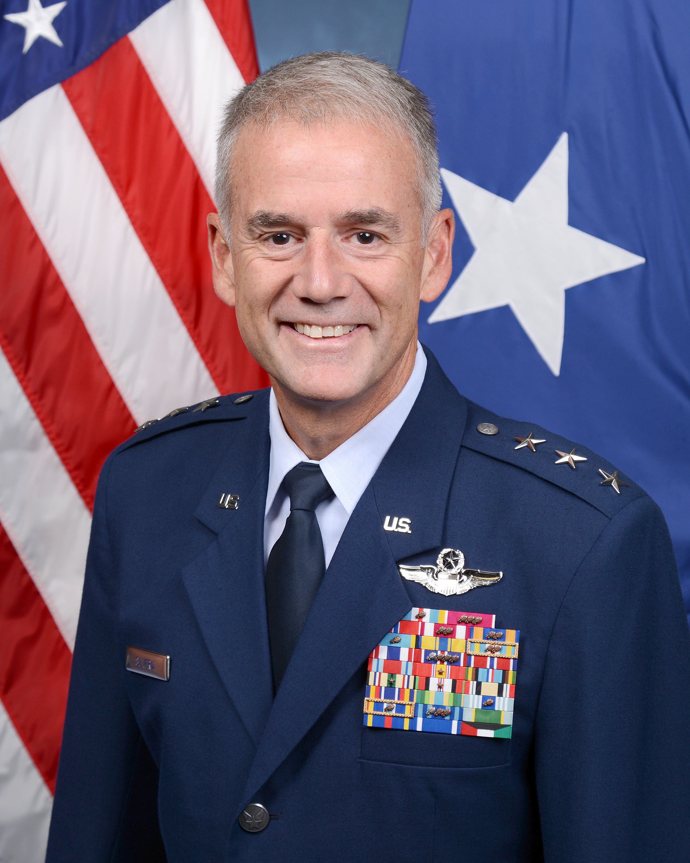 Lt. Gen. Jay B. Silveria